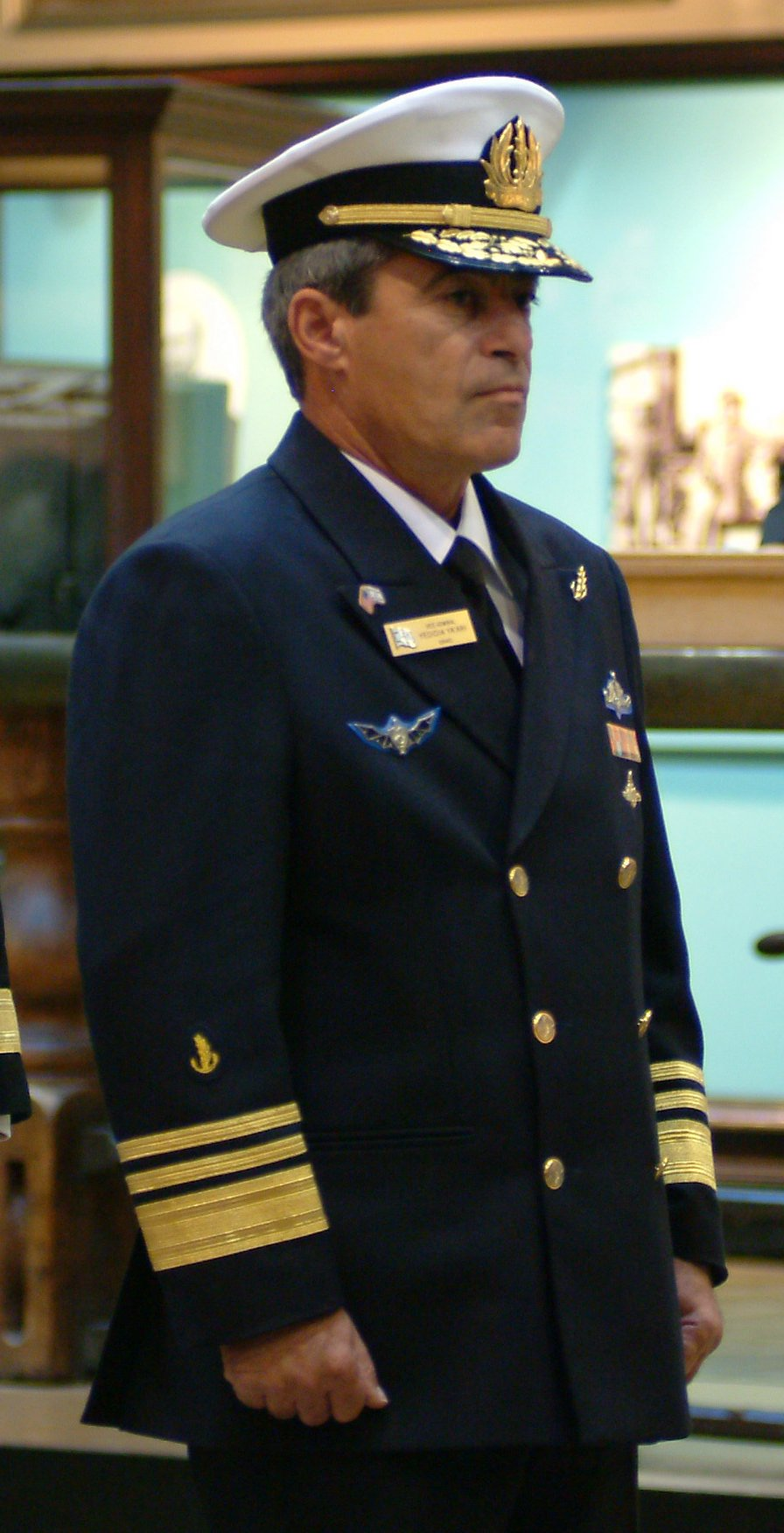 Vice Adm. Yedidia Ya'ari, Commander in Chief, Israel Navy, at the Washington Navy Yard's Navy Museum